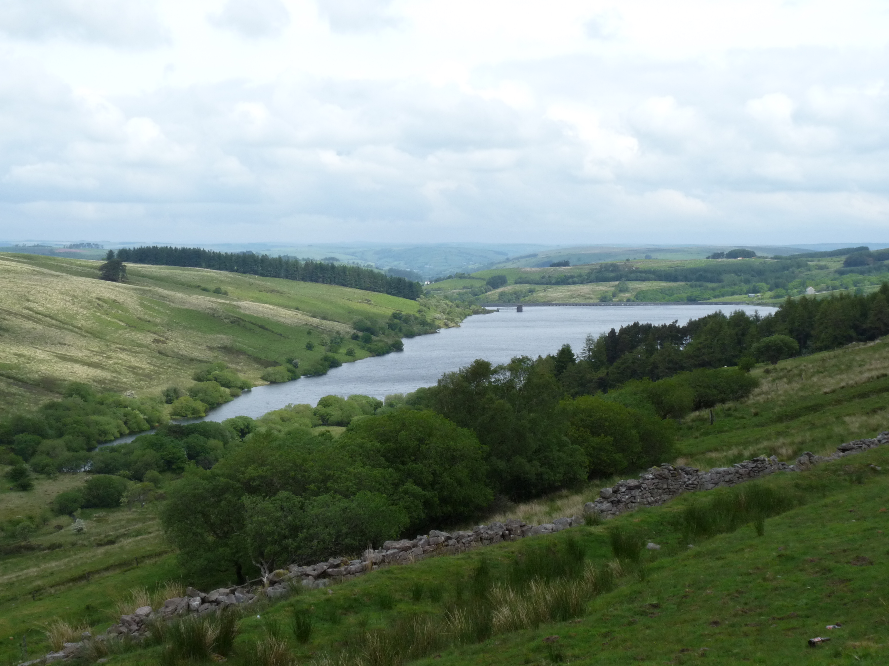 The Cray Reservoir in the Brecon Beacons, photographed from a lay-by on the A4067 Swansea-Sennybridge road